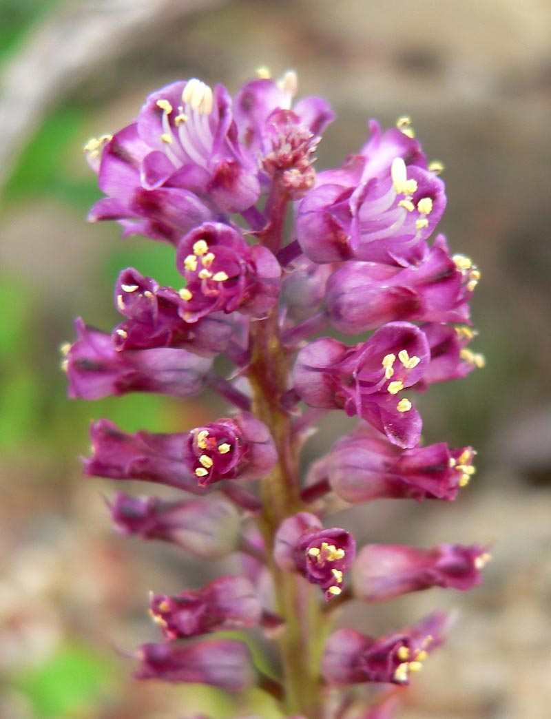 Photo of Lachenalia pustulata at the University of California Botanical Garden